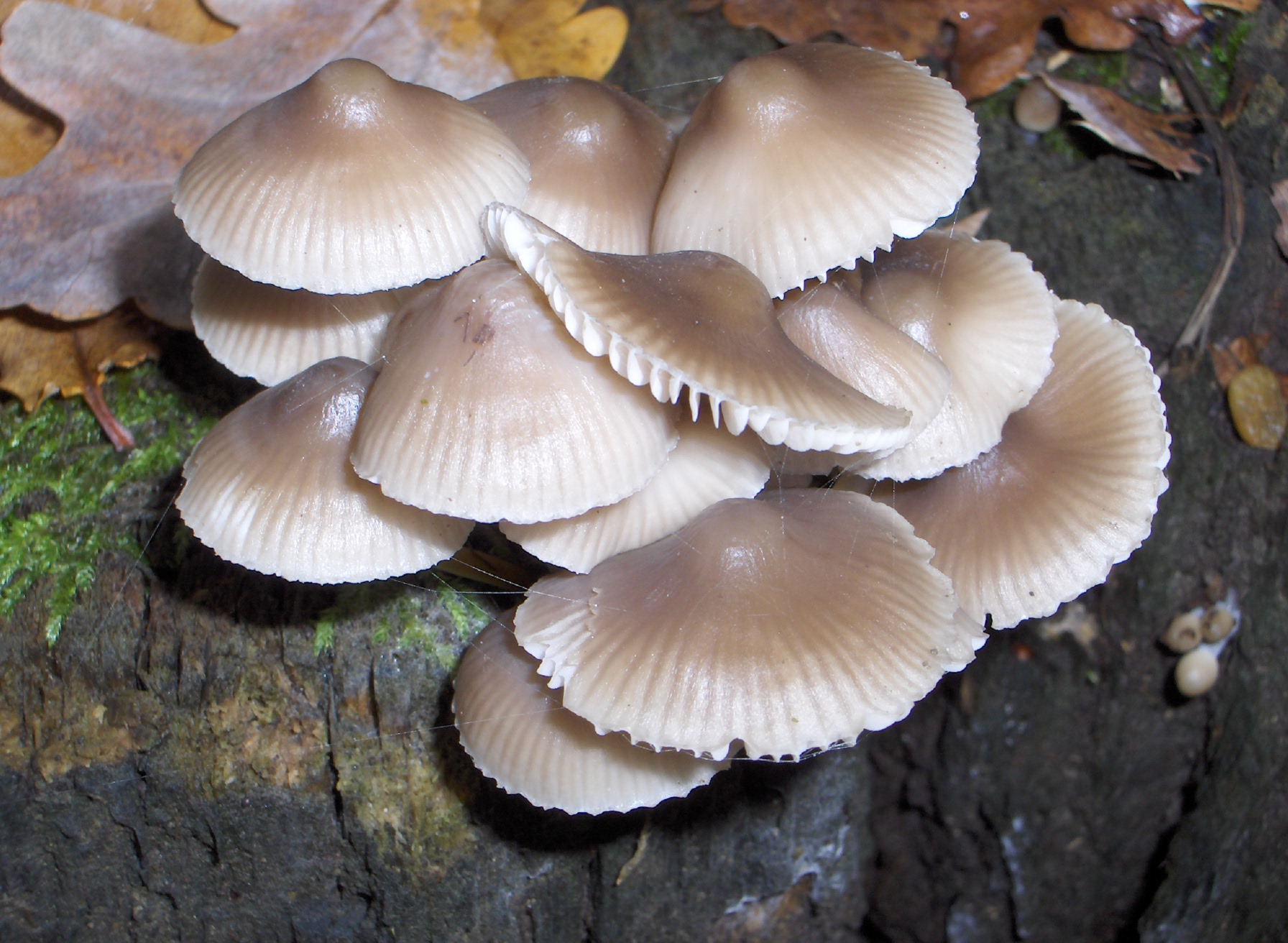 Fruit bodies of the "common bonnet", Mycena galericulata (Scop.) Gray. Specimens photographed in Lipik, Croatia.